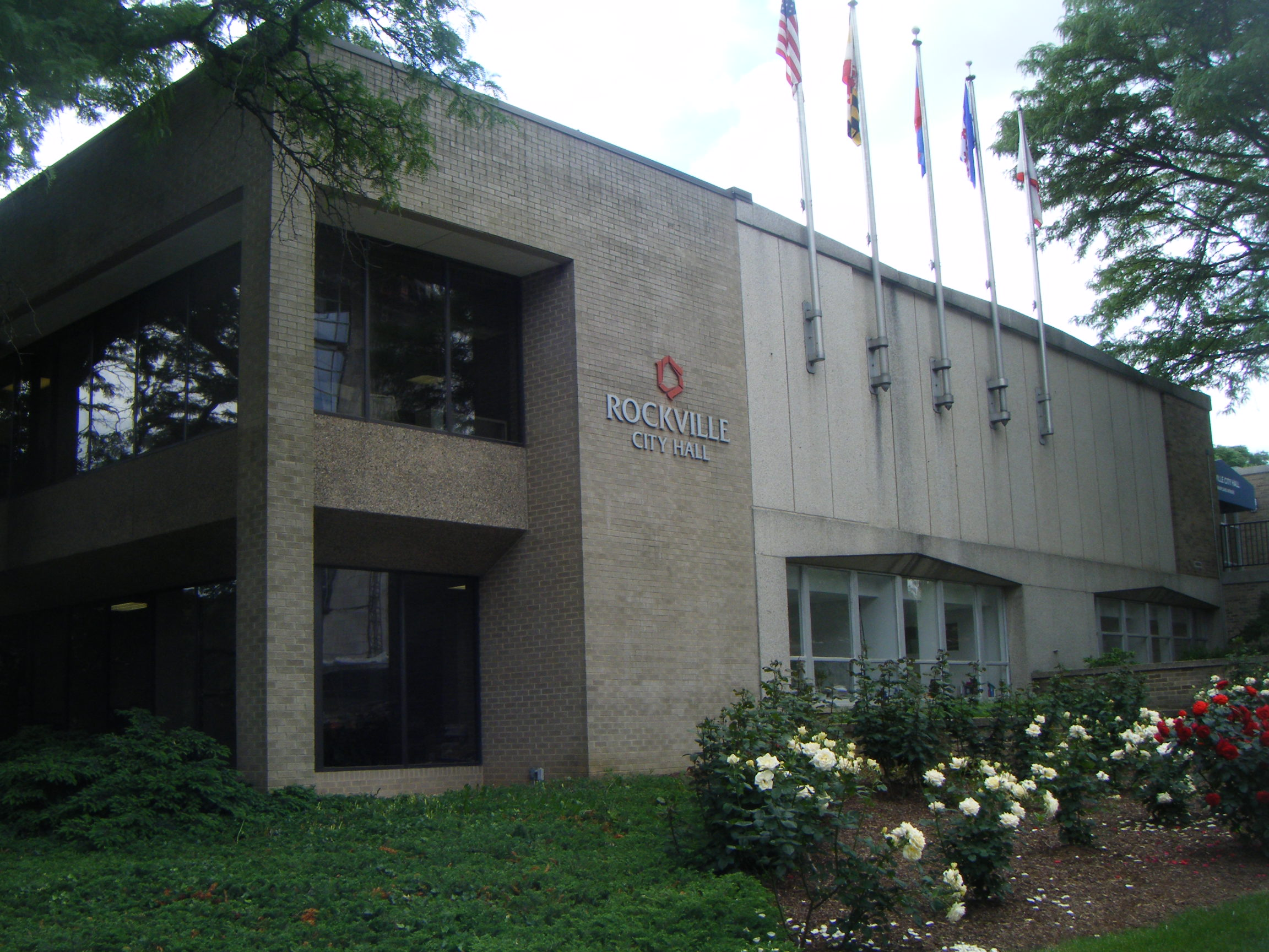 Rockville City Hall on Vinson Street.